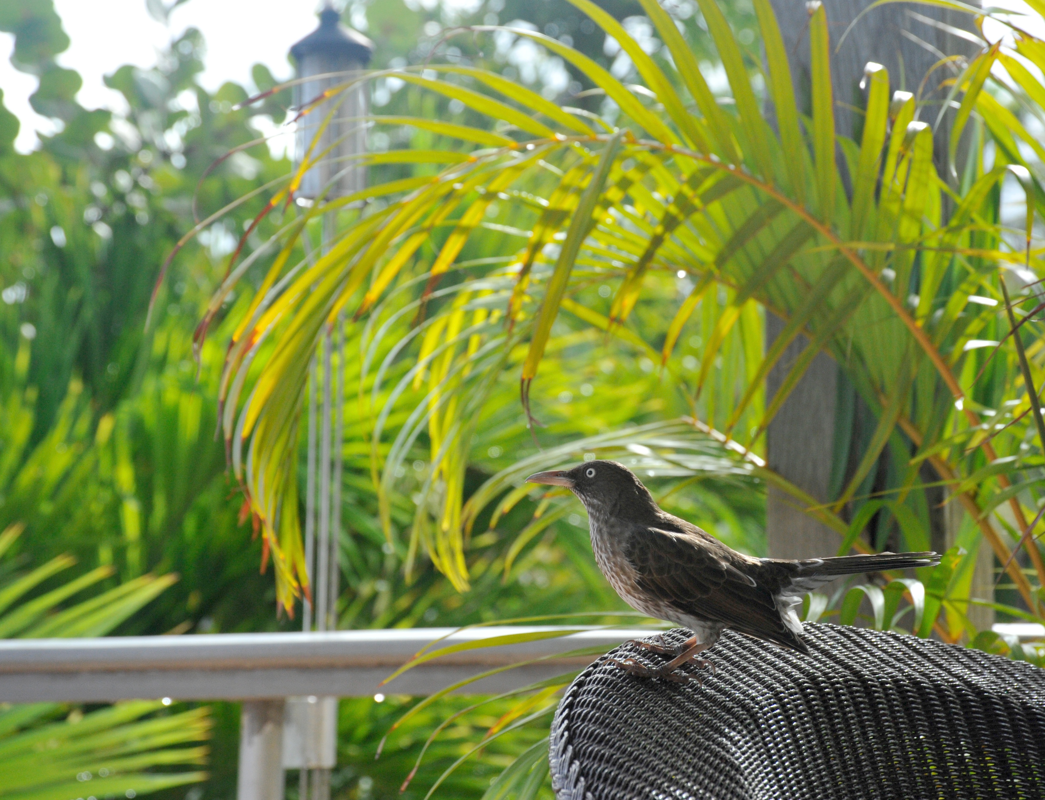 Pearly-eyed Thrasher at Caneel Bay